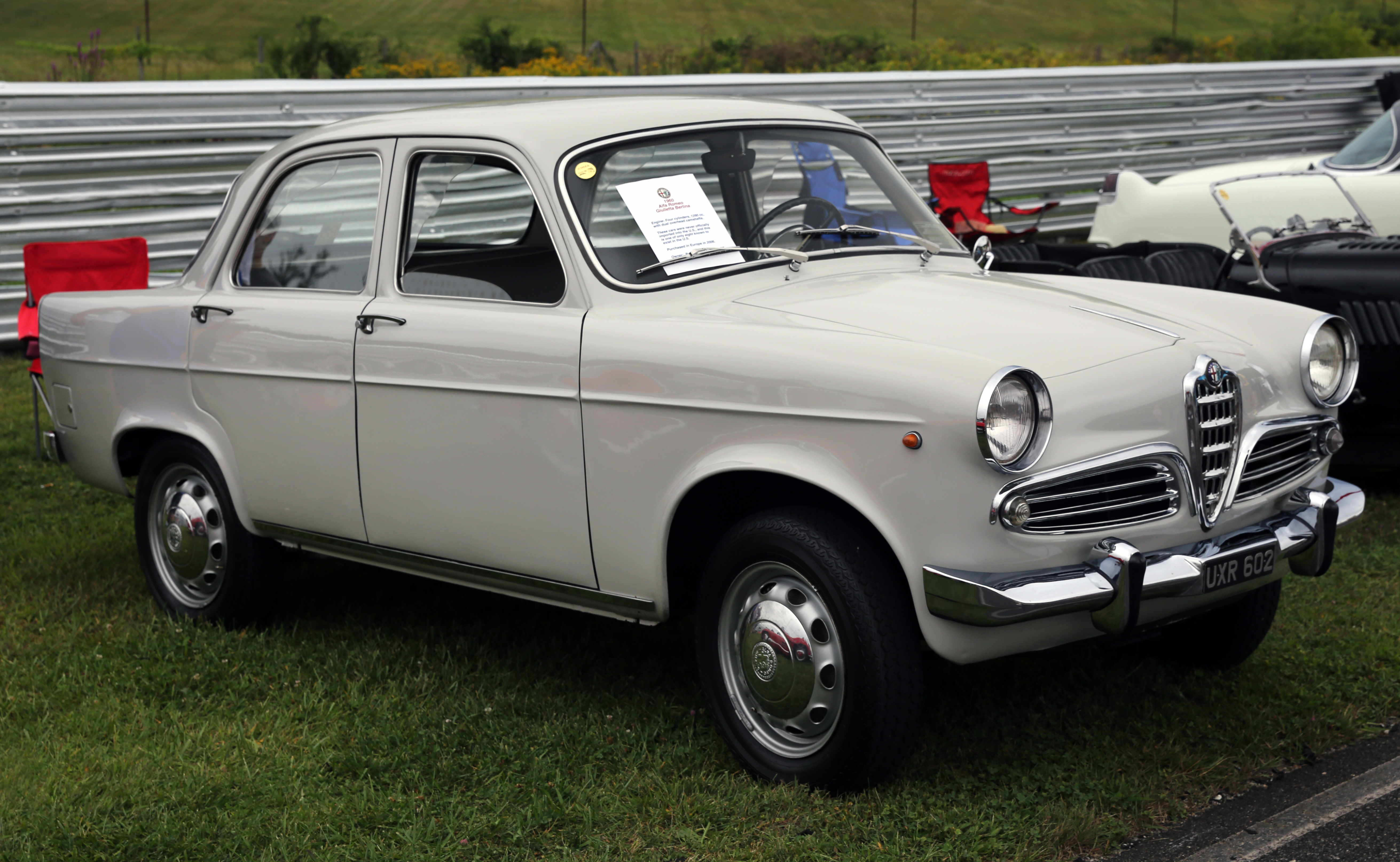 1960 Alfa Romeo Giulietta Berlina Normale (2nd series), seen at the 2014 Lime Rock Concours d'Élegance.